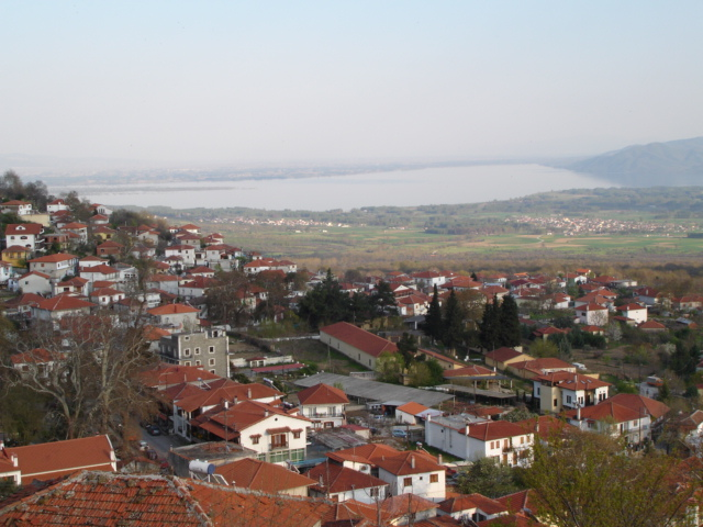 Ano Poroia, village in Serres prefecture, Greece